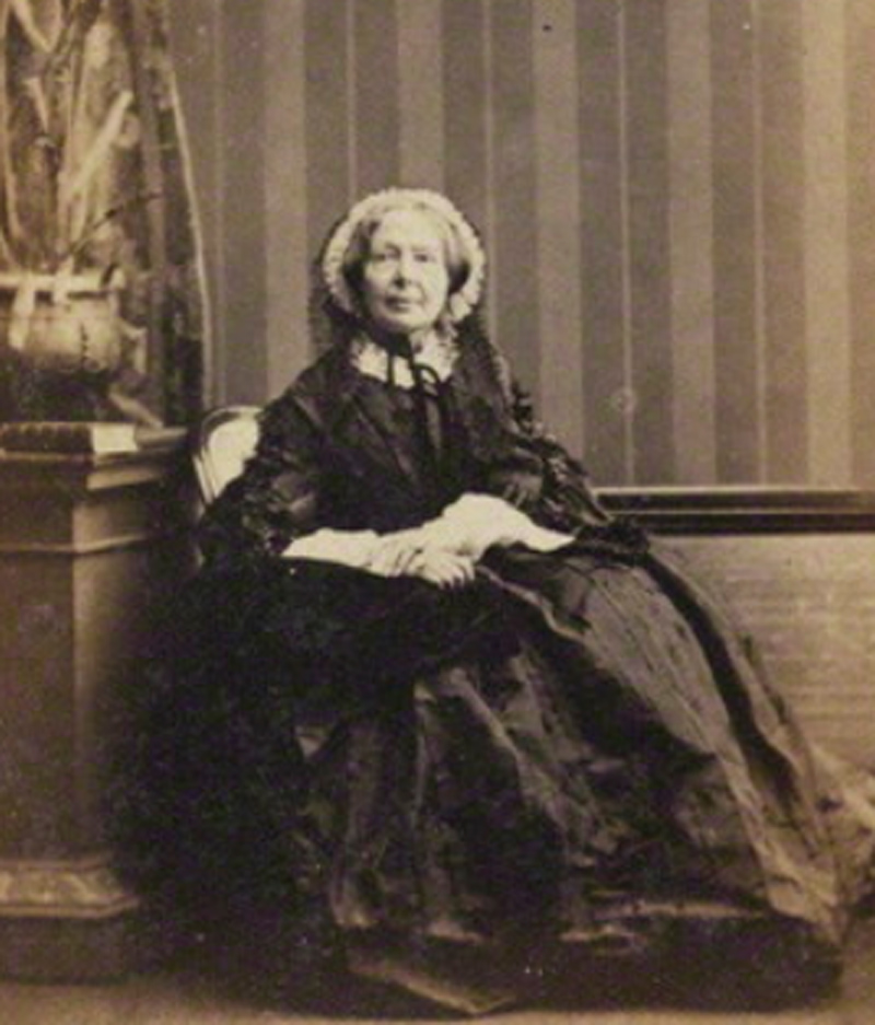 Lady Maria Farquhar in 1861